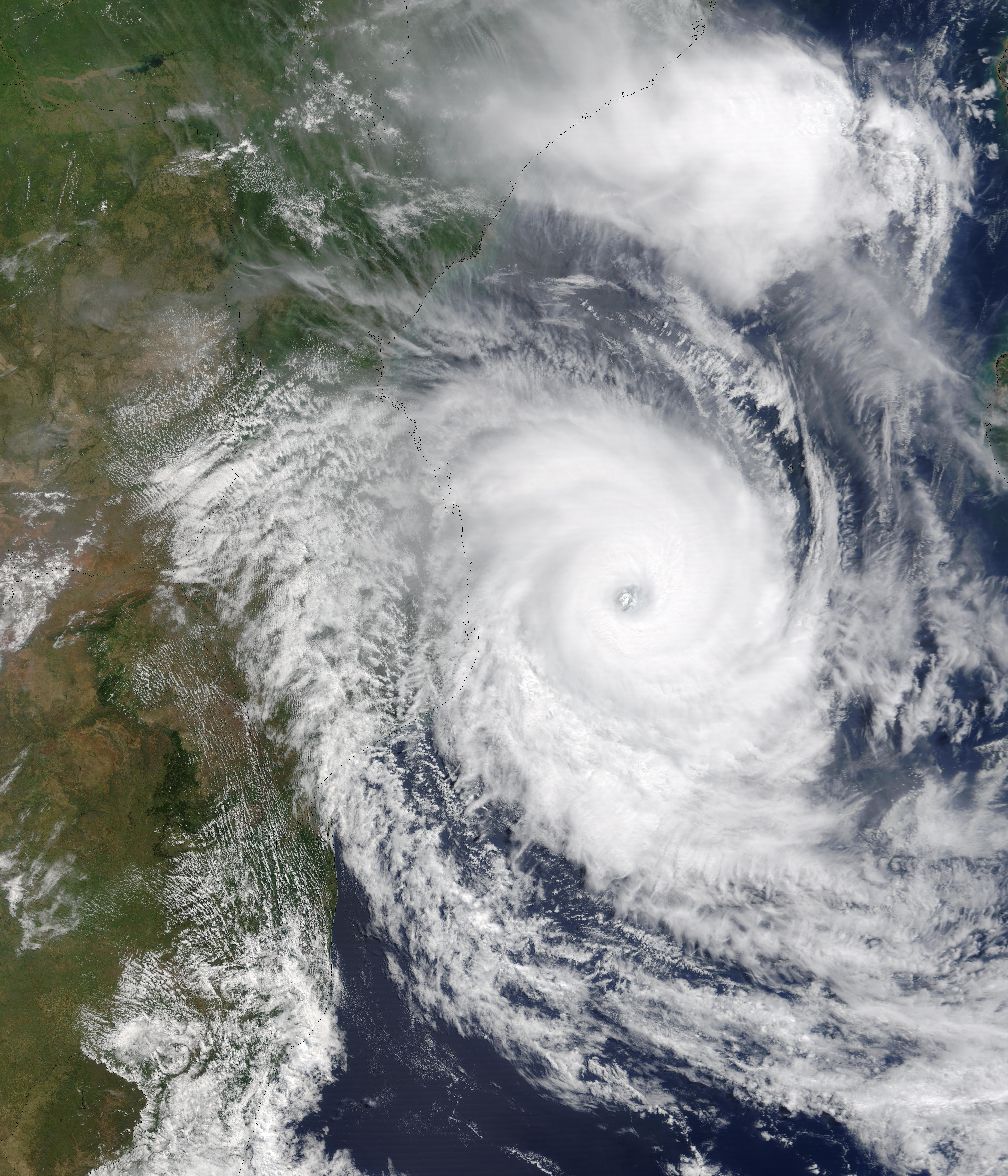 Tropical Cyclone Japhet (19S) is shown in this true-color Terra MODIS image. On Feb. 26, the storm was swirling in between Mozambique, on the left, and the island nation of Madagascar on February 26, 2003. At the time this image was acquired, Japhet was a Category 4 storm with 115-knot winds. One interesting feature of Japhet is that it was expected to move very little over the course of its life: less than 2 degrees latitudinally and just over 6 degrees longitudinally toward the Mozambique coast.